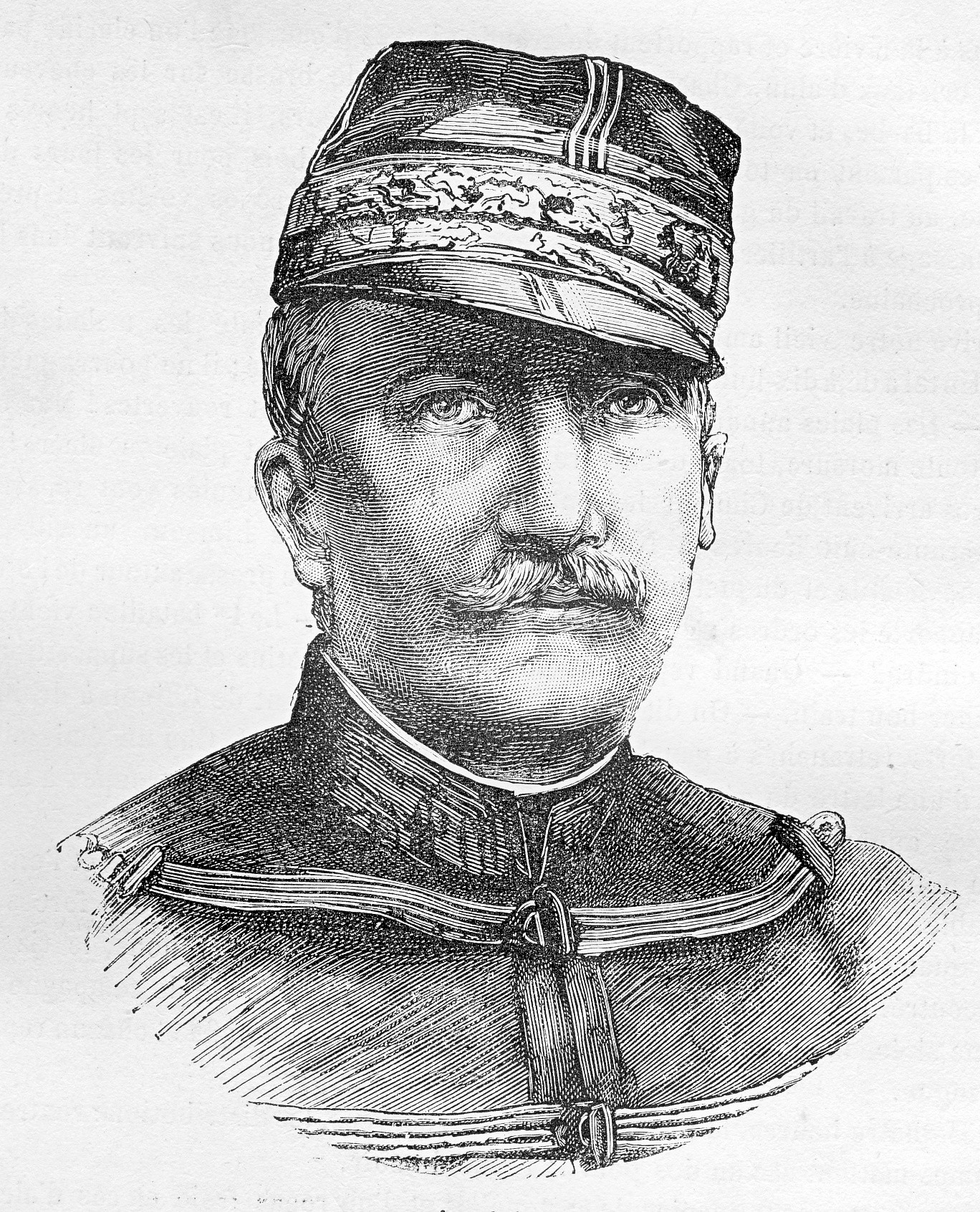 General Campenon, French minister of war (resigned December 1885)